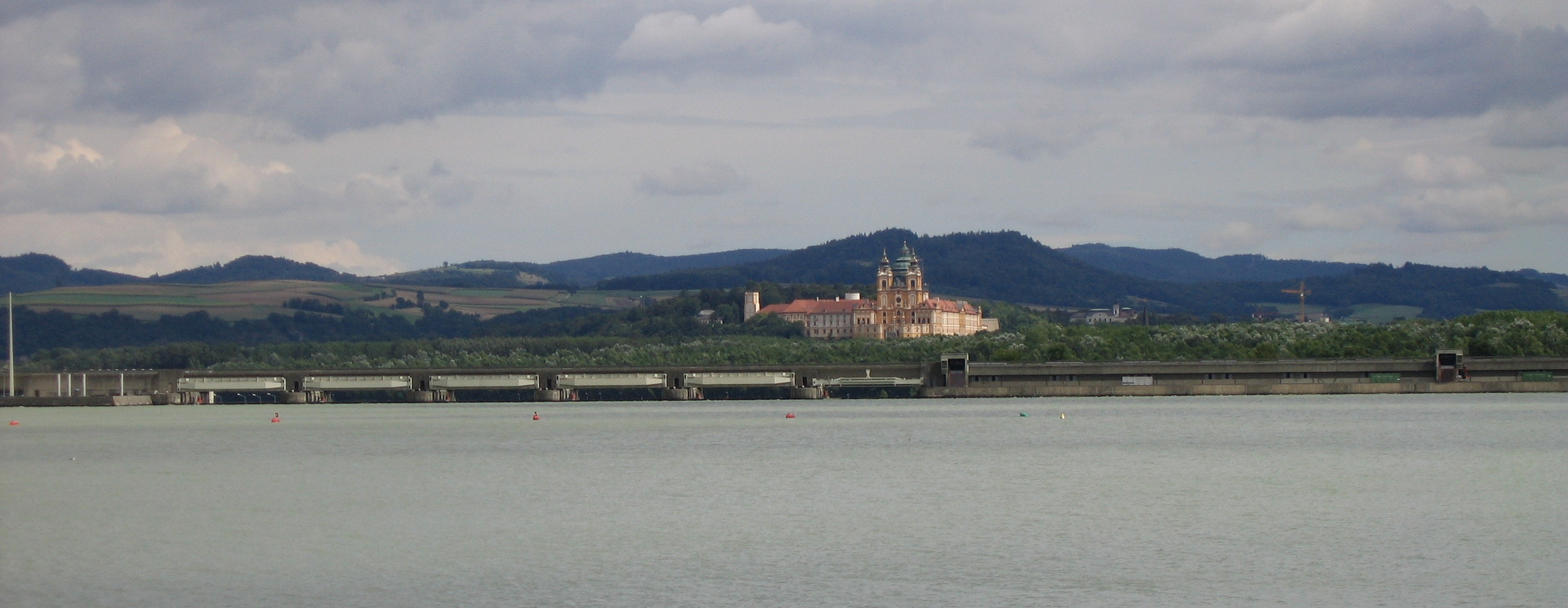 Melk, Austria, view of Danube power plant and Stift Melk